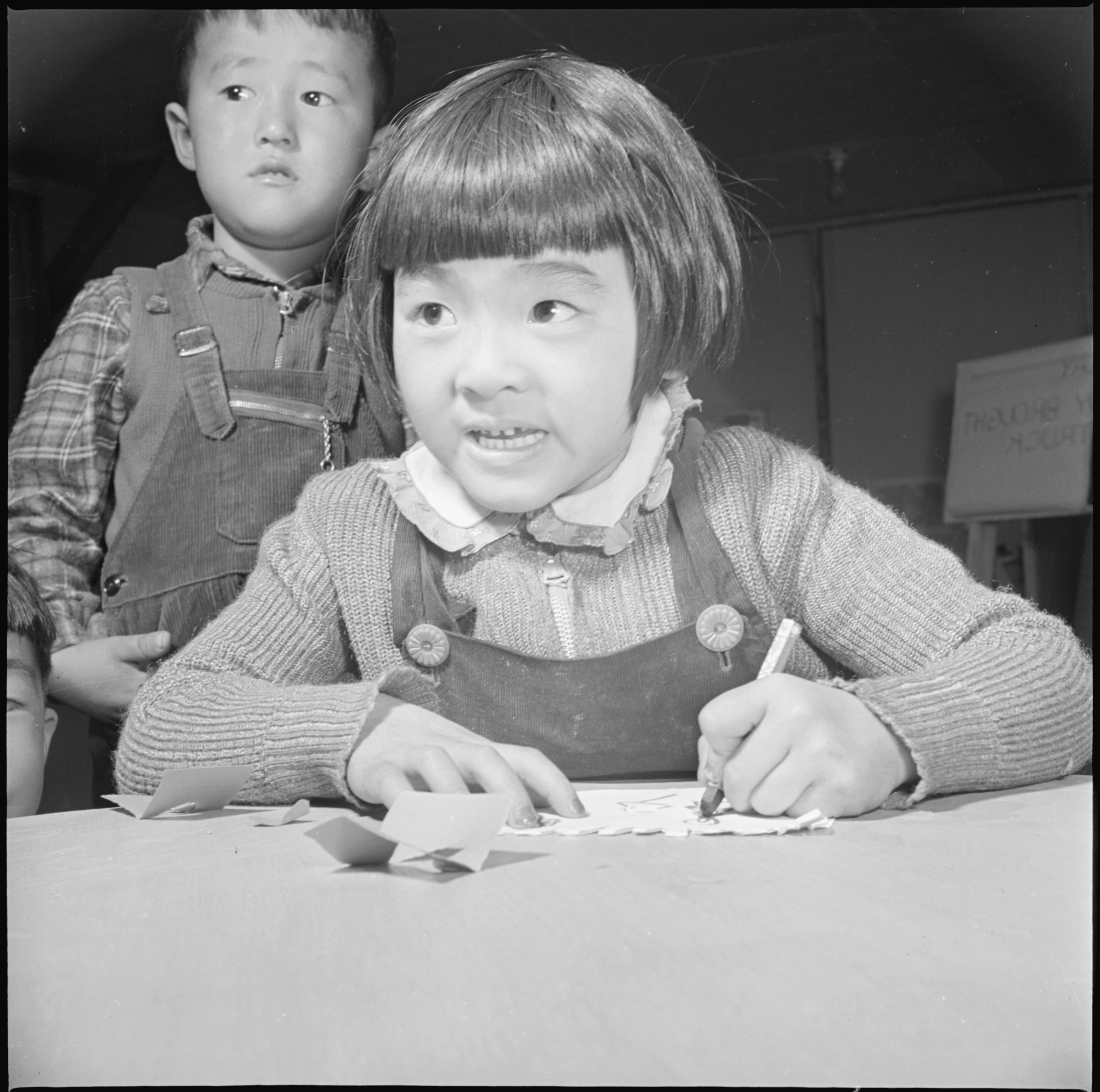 Scope and content: The full caption for this photograph reads: Manzanar Relocation Center, Manzanar, California. A third grade student at the Manzanar Relocation Center for evacuees of Japanese ancestry practices free-hand drawing. This photo was taken in the student training center where student teachers are given college credit for their practice teaching. Miss Kiyo Fukasawa, is the student teacher and is supervised by a Caucasian teacher, as are all student teachers.